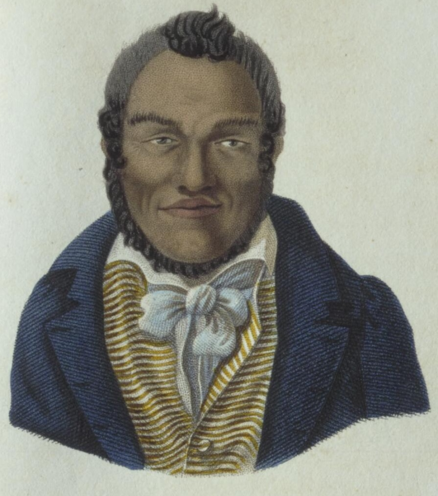 Naihe Kukui was a harbor pilot in the early days of the Kingdom of Hawaii. He was known as "Jack the pilot", or in French "Kéihé-Koukoui, pilote royal surnomé Jack".